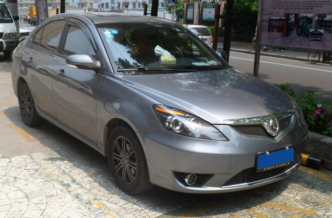 Chang'an Alsvin sedan photographed in Shanghai, China.